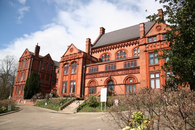 Girl's High School Designed by Lincoln architect William Watkins in 1893, this striking red brick and terracotta building was originally the girl's high school, but has lately been home to a convent, school of art and currently the University of Lincoln.